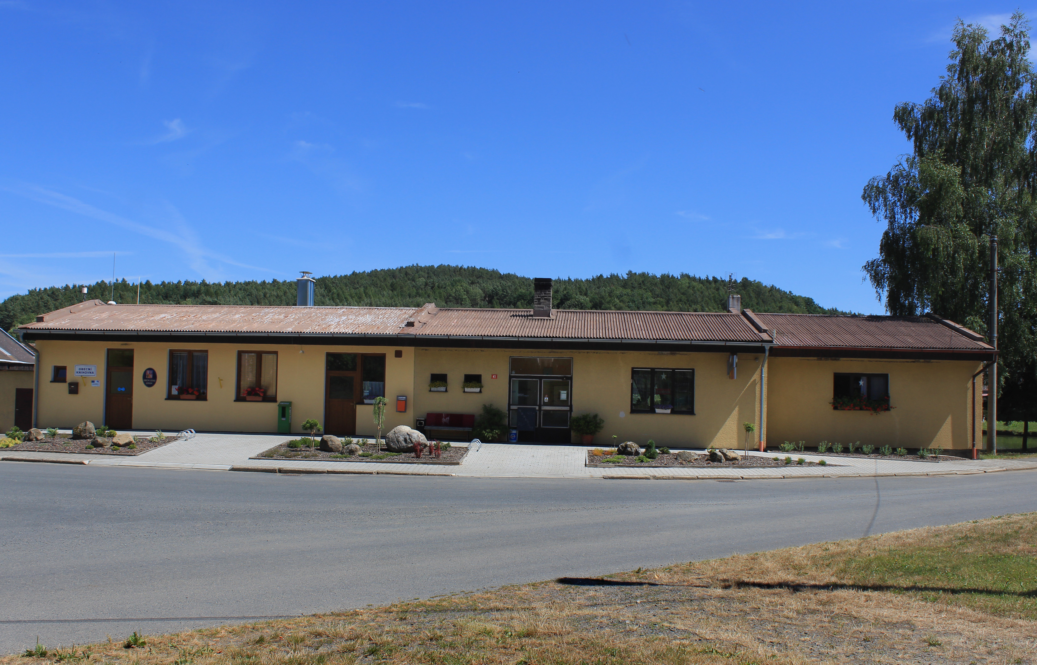 Municipal office in Otov, Czech Republic.